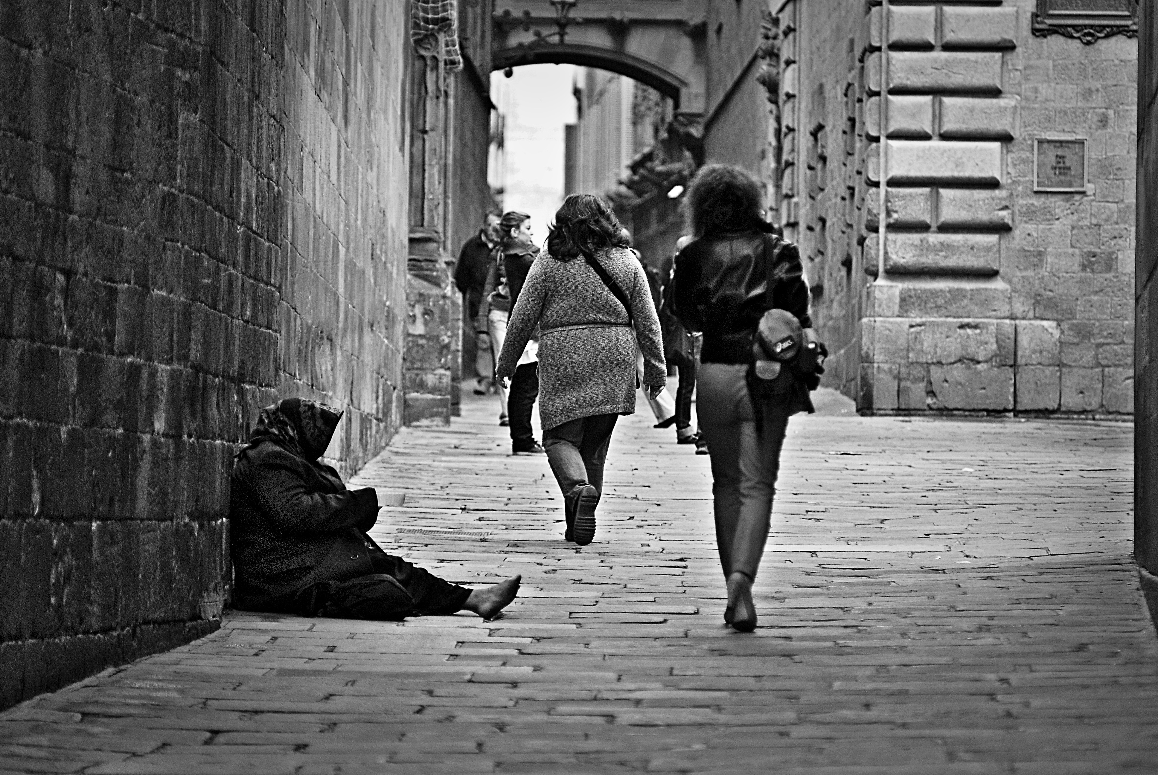 Depicts poverty as a woman siting in the middle of a street appears to have no audience with the bystanders.